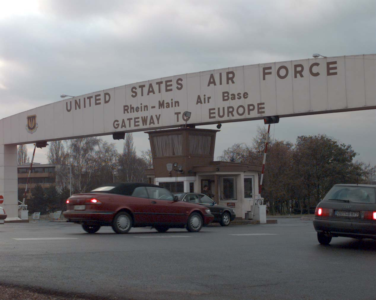 Rhein-Main Air Base, Germany, long known as the "Gateway to Europe", has become a marshaling point for the NATO Enabling Force of Operation Joint Endeavor. Enabling forces are moving into the Croatia, Bosnia and Herzegovina, and Slovenia theaters of operation to prepare entry points for the main Implementation Force.